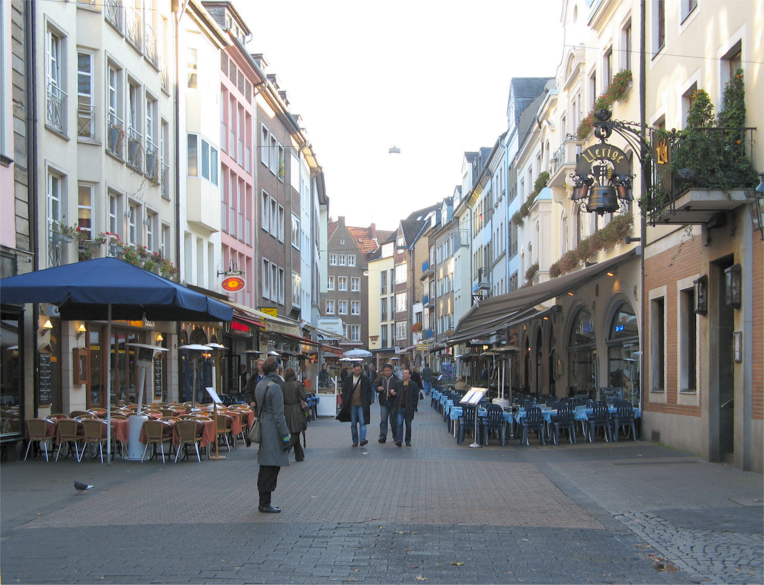 Düsseldorf Downtown Old-Town-Quarter Altstadt